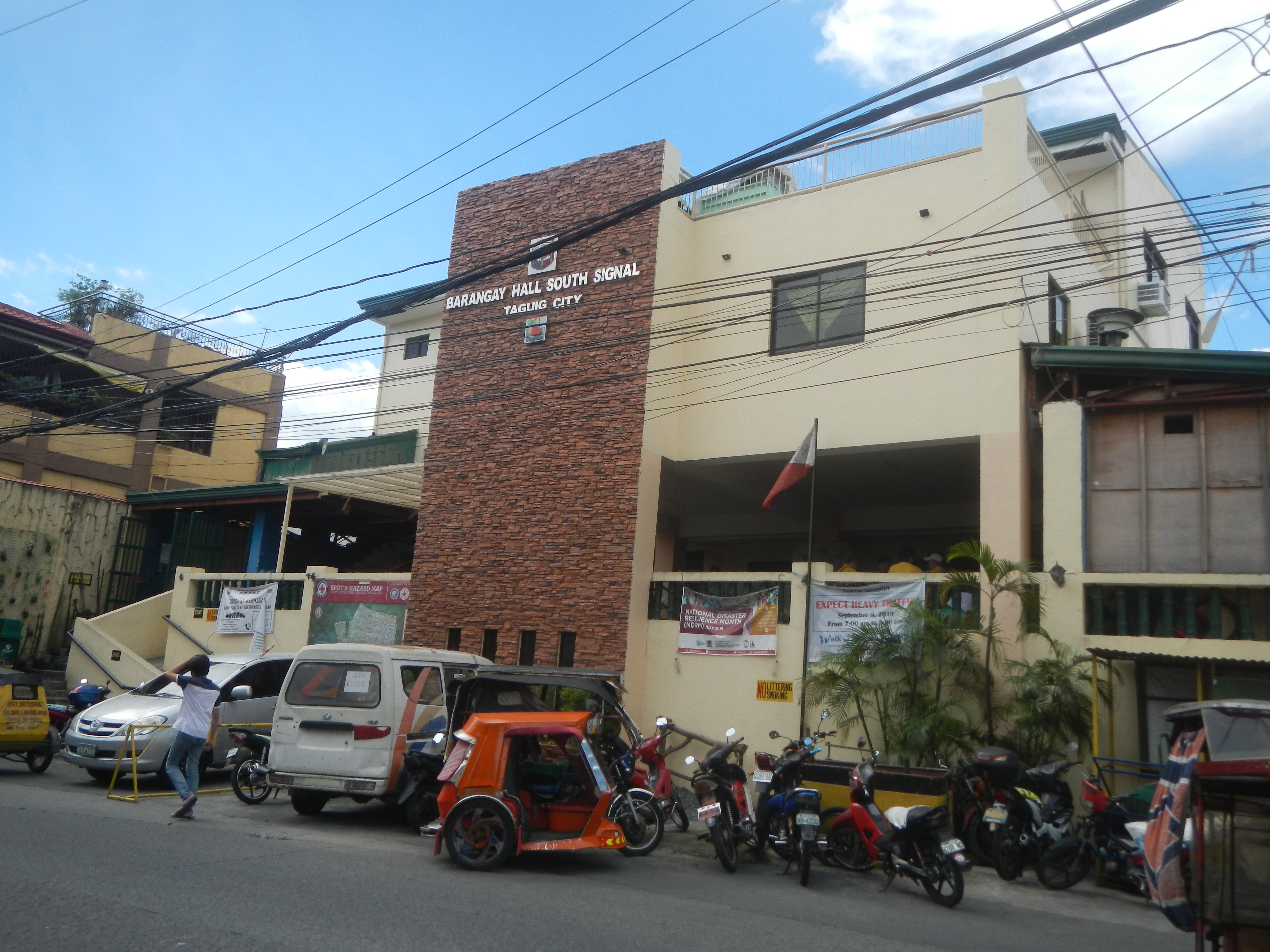 Central Signal Village, Taguig City South Signal Village, Taguig City Legislative district of Taguig City Legislative district of Pateros-Taguig City Barangays North Signal Village 14°30'54"N 121°3'21"E Central Signal Village Central Signal Village 14°30'42"N 121°3'18"E South Signal Village 14°30'15"N 121°3'17"E Katuparan 14°30'56"N 121°3'39"E Taguig City (Note: Judge Florentino Floro, the owner, to repeat, Donor Florentino Floro of all these photos hereby donate gratuitously, freely and unconditionally all these photos to and for Wikimedia Commons, exclusively, for public use of the public domain, and again without any condition whatsoever).